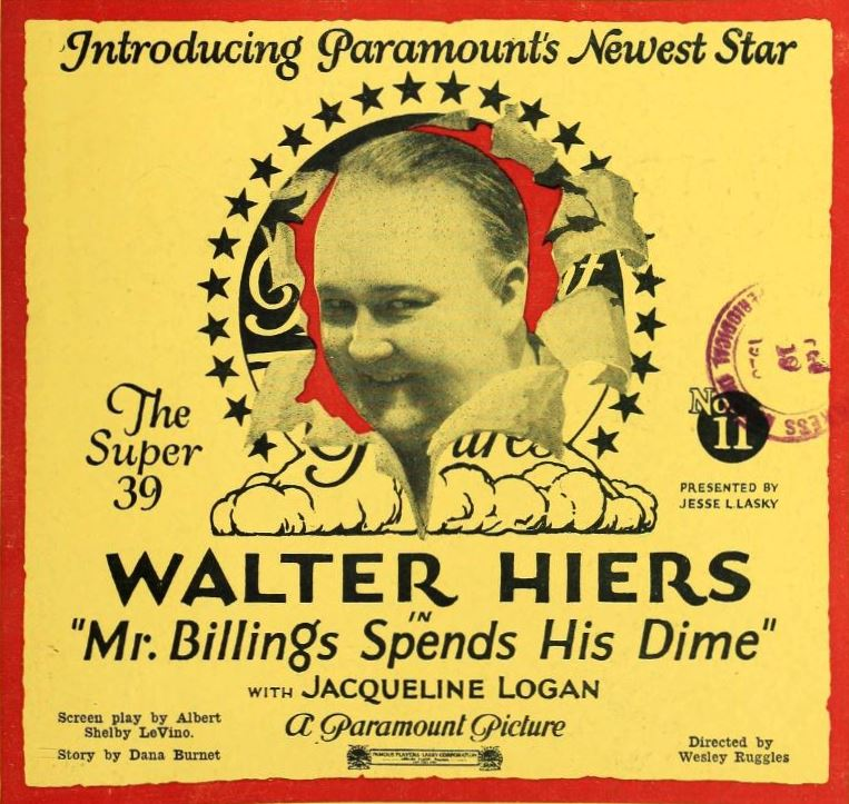 Advertisement for the American comedy film Mr. Billings Spends His Dime (1923) with Walter Hiers, on the front page of the February 24, 1923 Exhibitor's Trade Review.